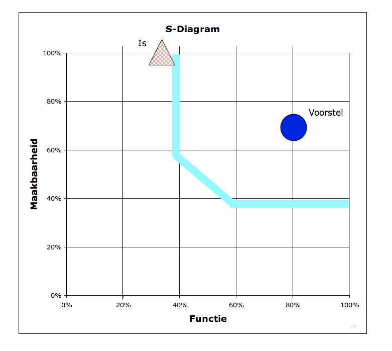 S-Diagram. “Kesselring method" for evaluating a morphological matrix.